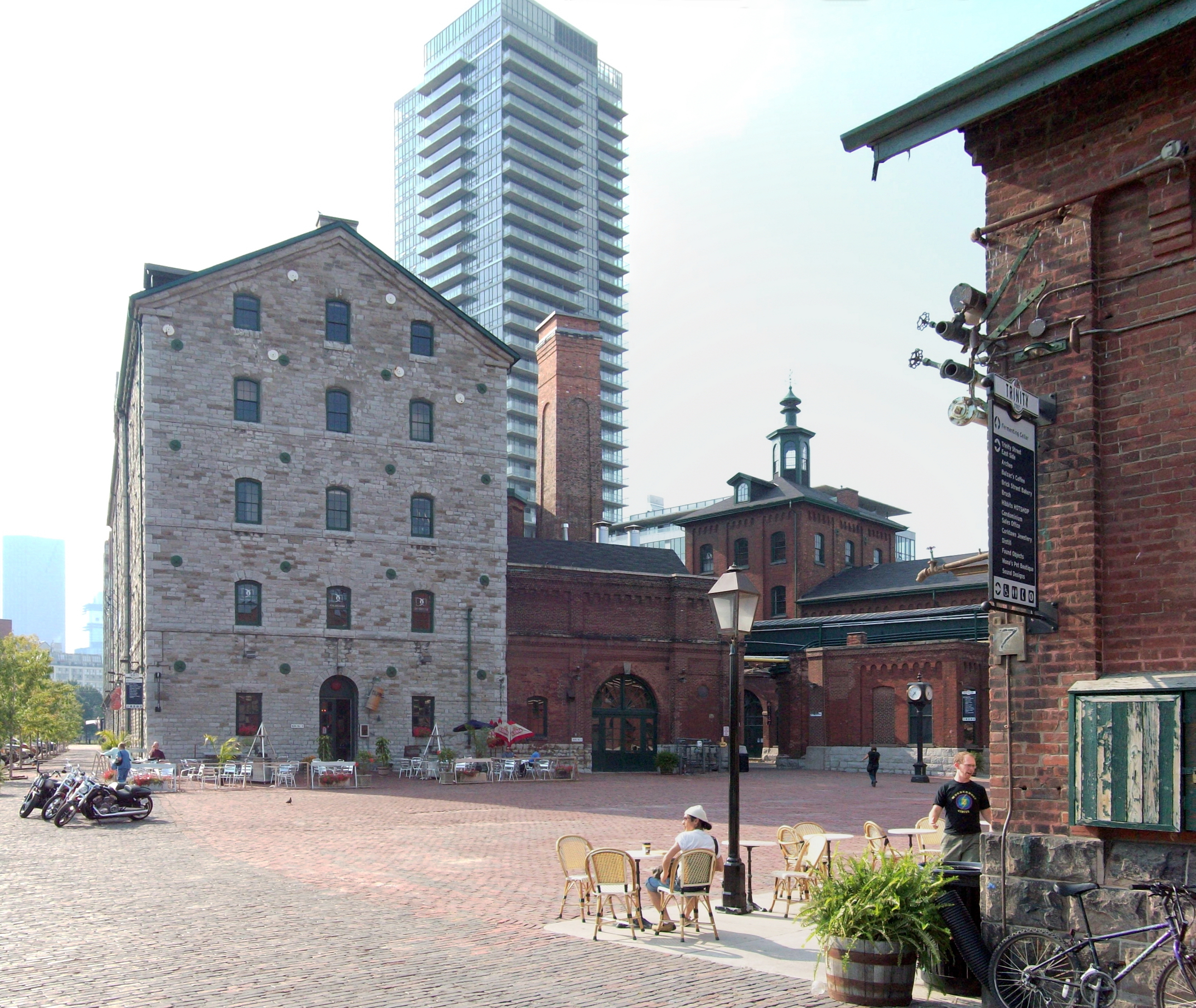 Exploring the site of the historic Gooderham and Worts distillery, in downtown Toronto, said to be once the largest distillery in the World.